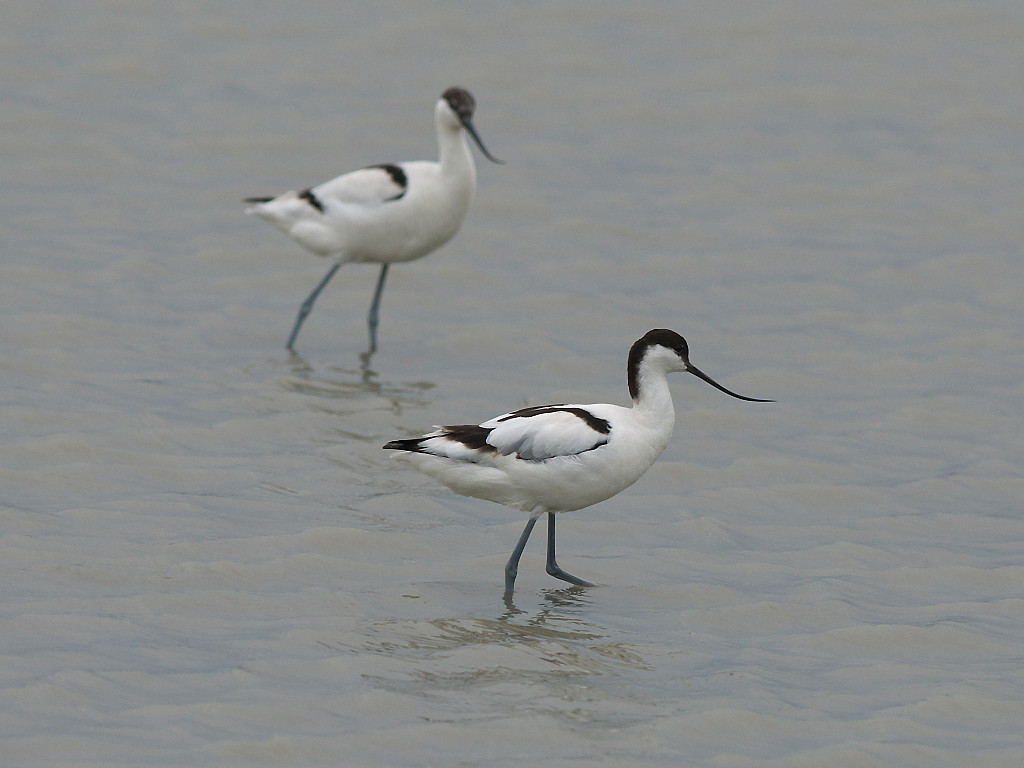 Winter visitor in Taiwan.